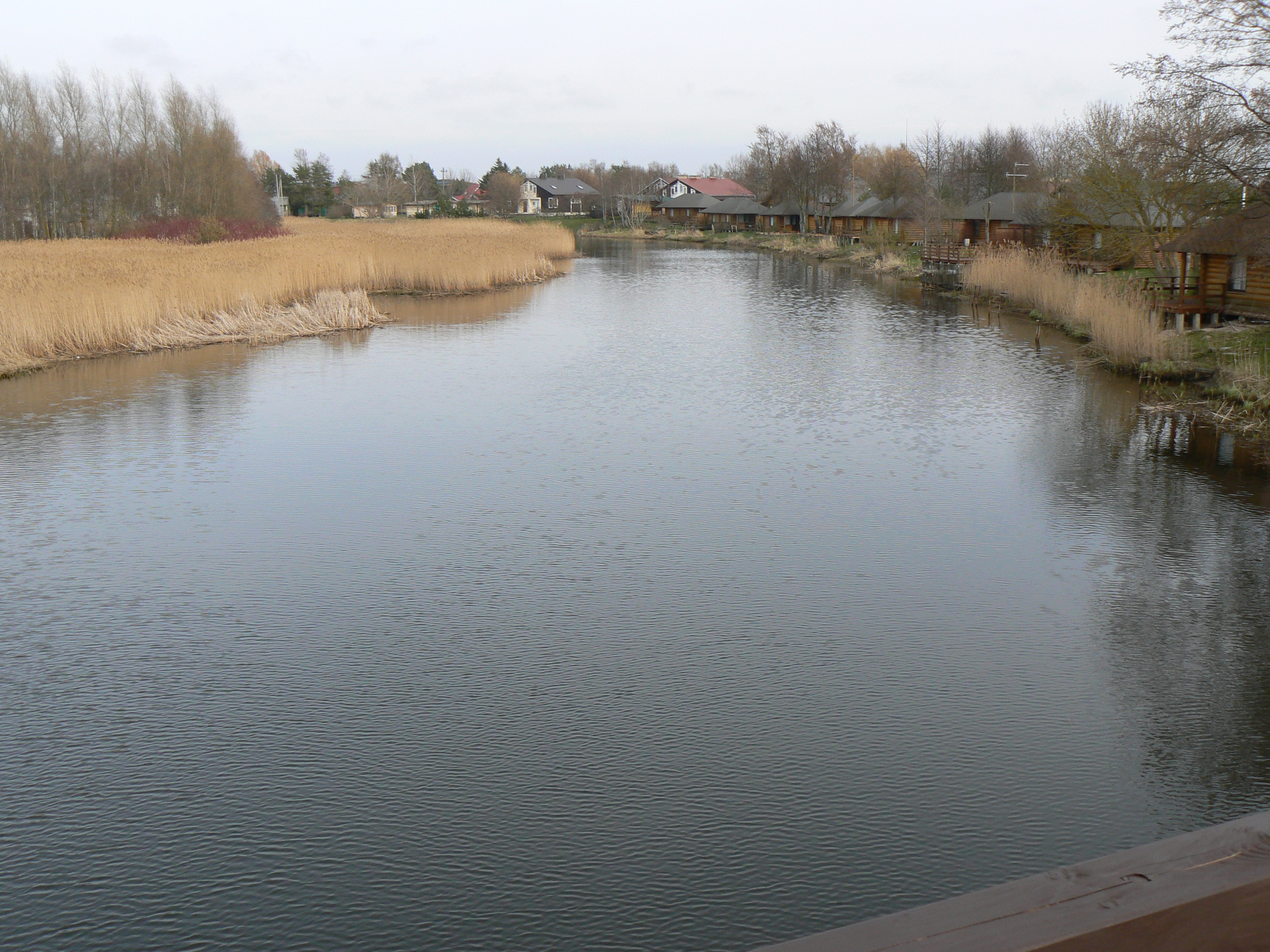 River Šventoji in Spa Šventoji